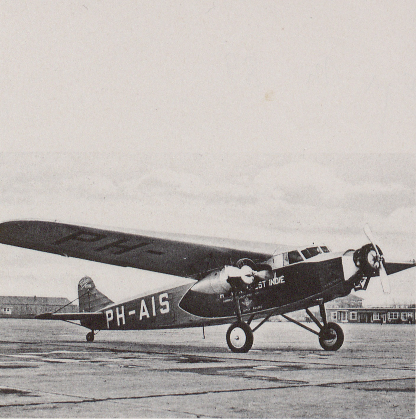 Airplane the Snip